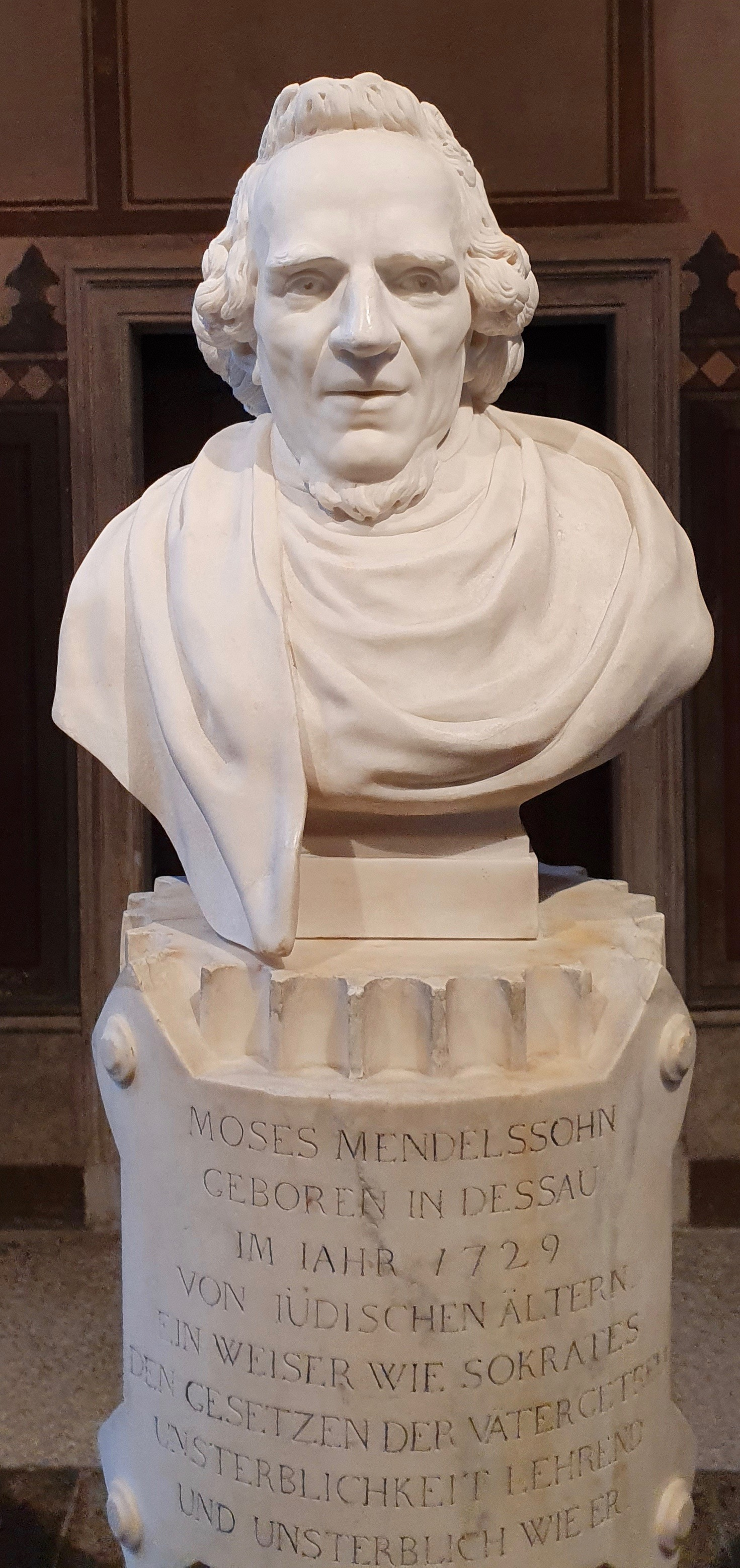 Bust of Moses Mendelssohn by Jean-Pierre-Antoine Tassaert at Neue Synagoge (Berlin)